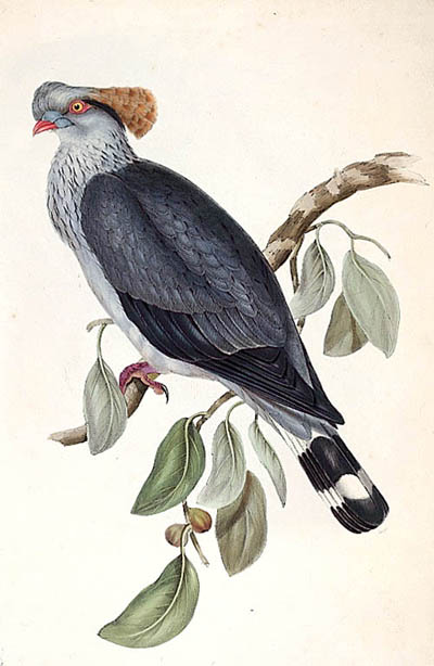 Elizabeth Gould(1804–1841) Lopholaimus antarcticus G.R. Gray plate 61 of John Gould’s The Birds of Australia vol. V hand-coloured lithograph; 55.3 x 38.1 cm [London: s.n., 1848].